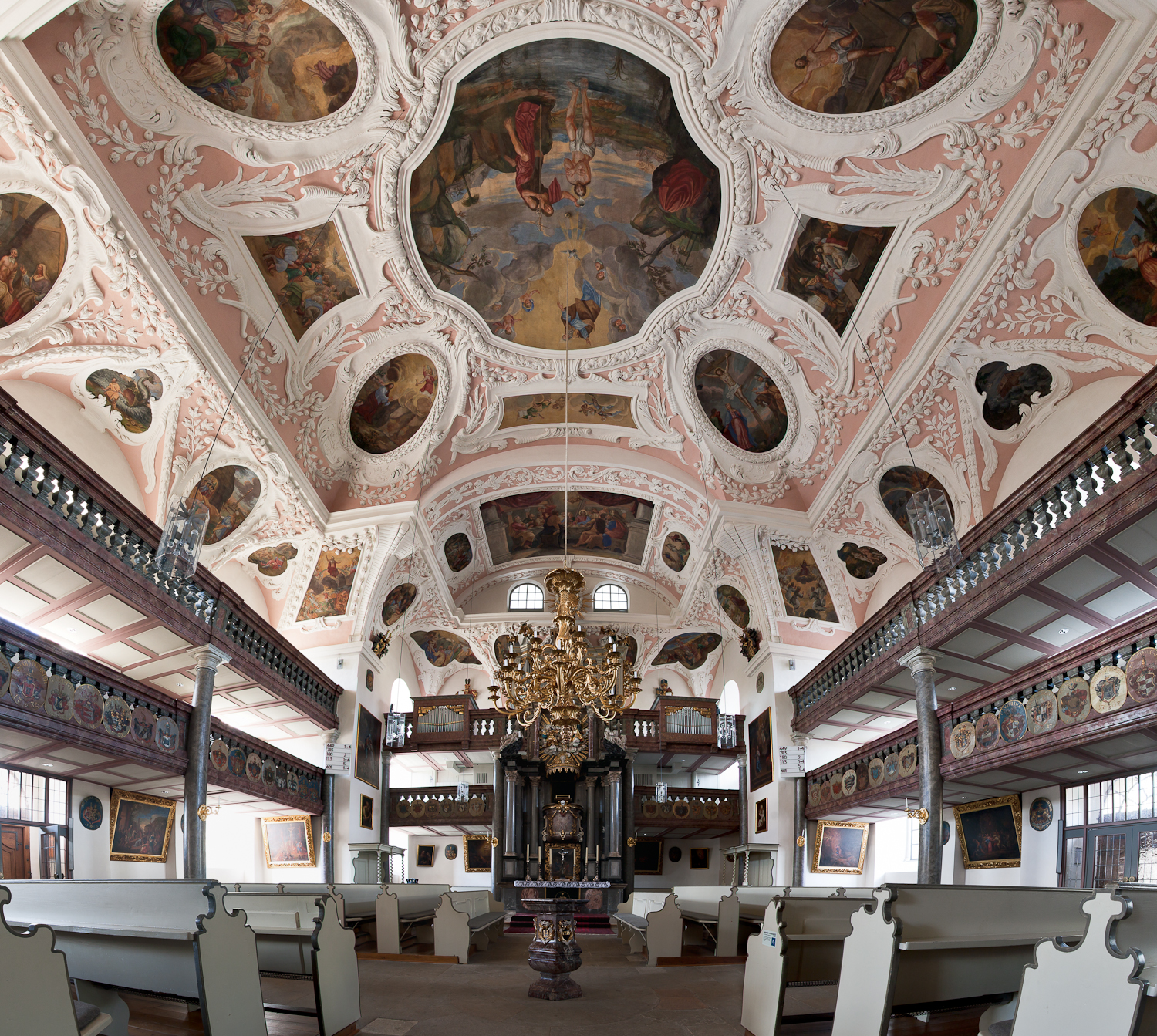 Ordenskirche in St. Georgen, Bayreuth